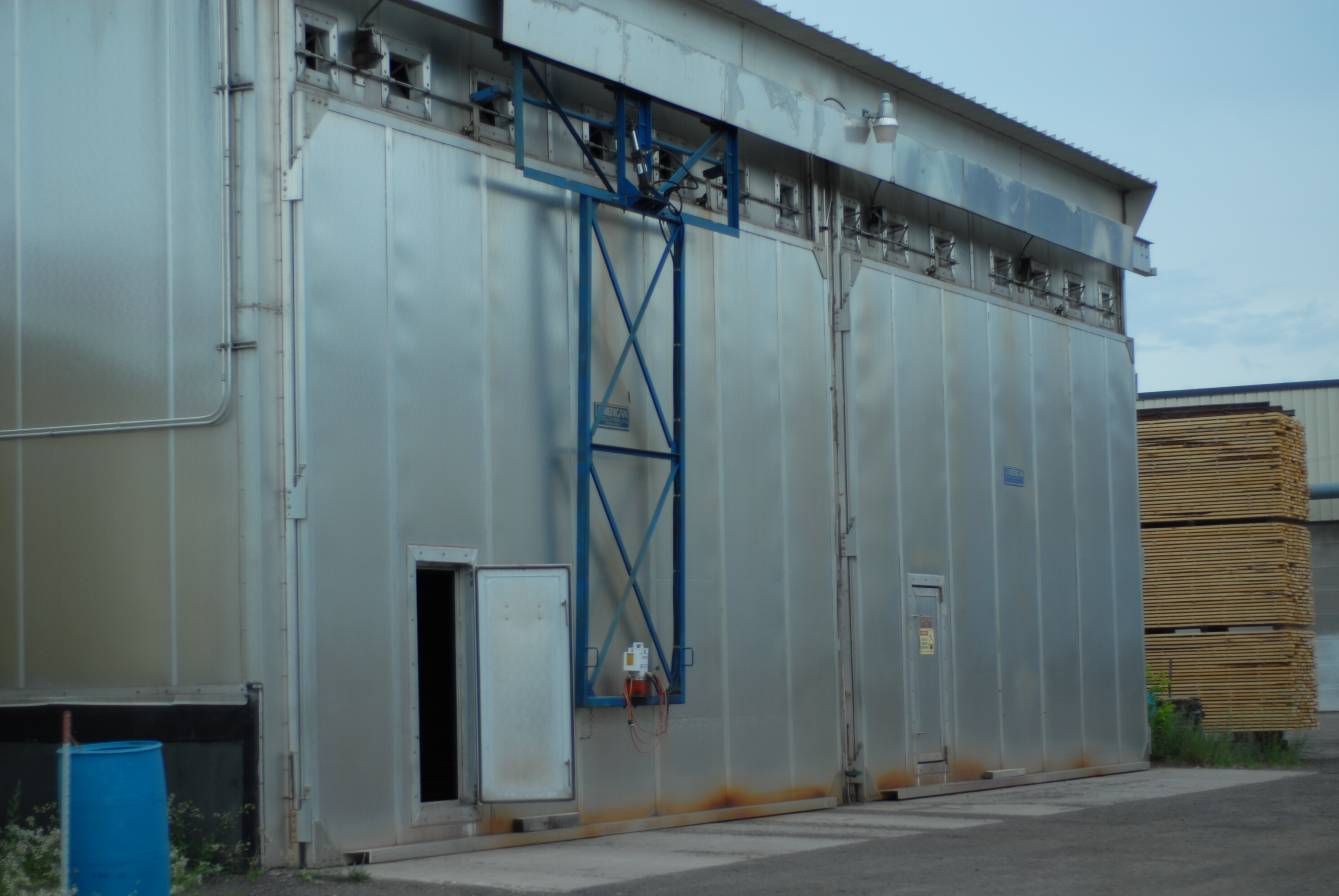 Kiln drying a room of Maple wood